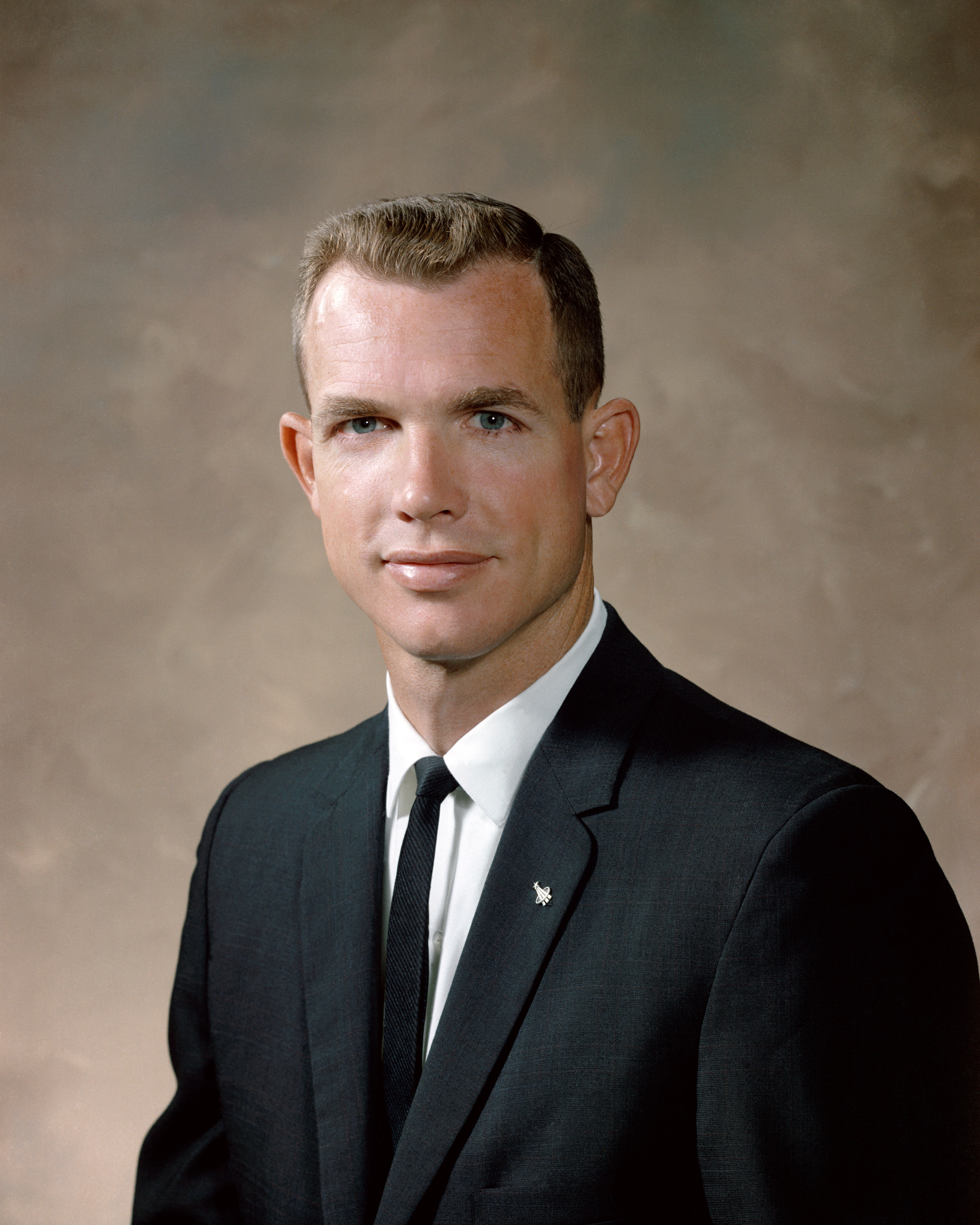 Astronaut David R. Scott.